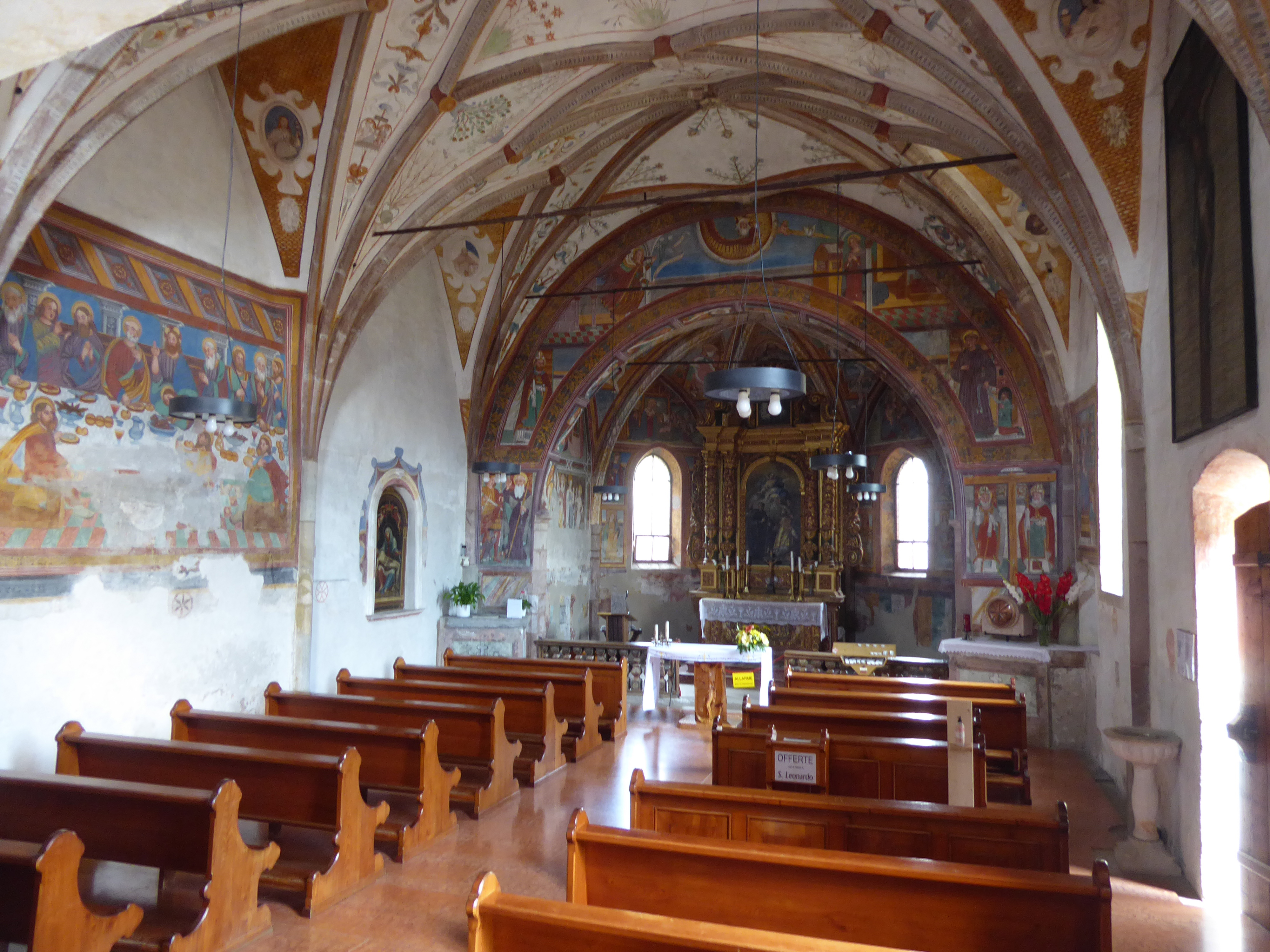 Tesero (Trentino, Italy), Saint Leonard church - Interior